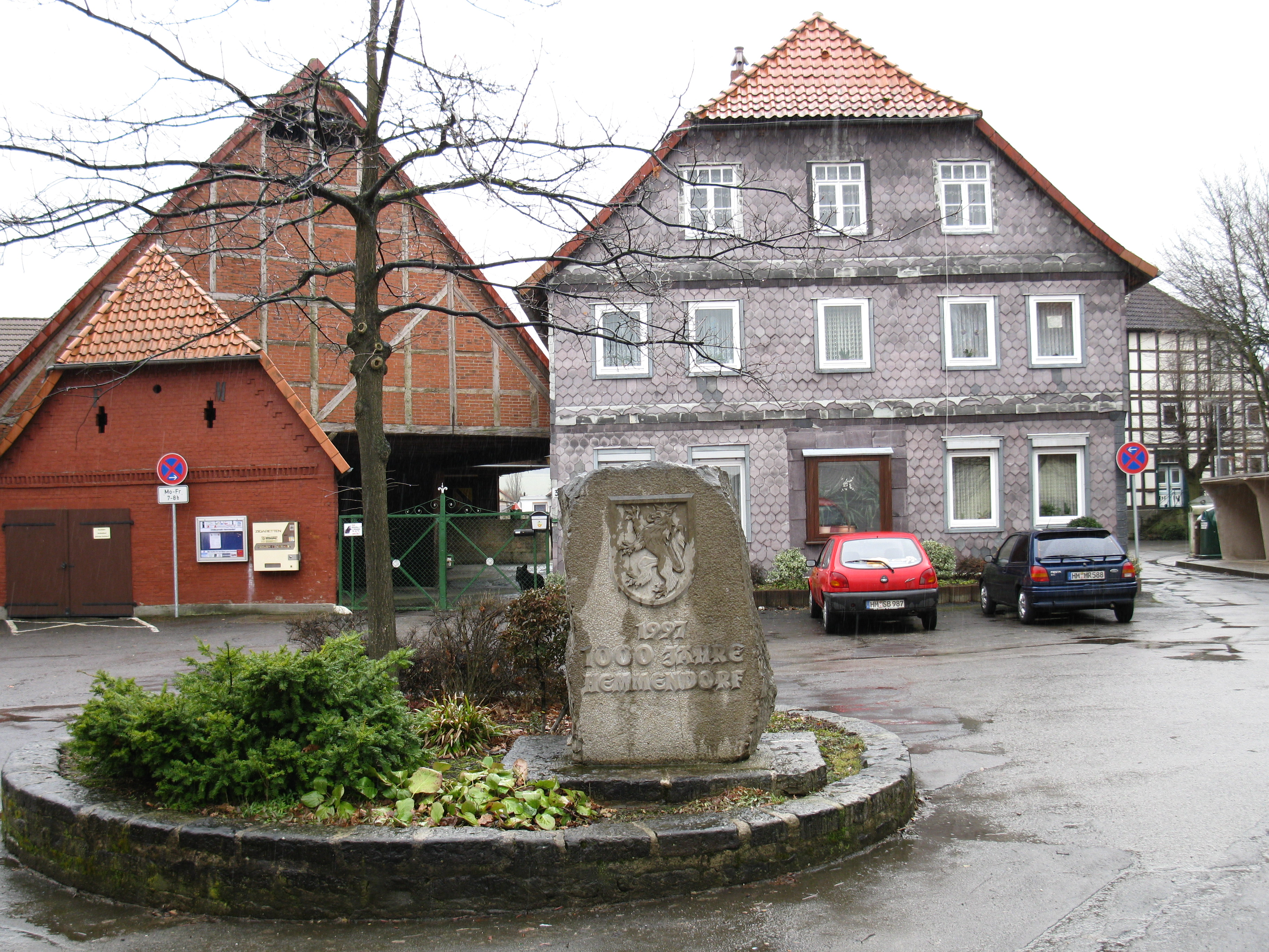 Memorial in the Market Place, Salzhemmendorf-Hemmendorf